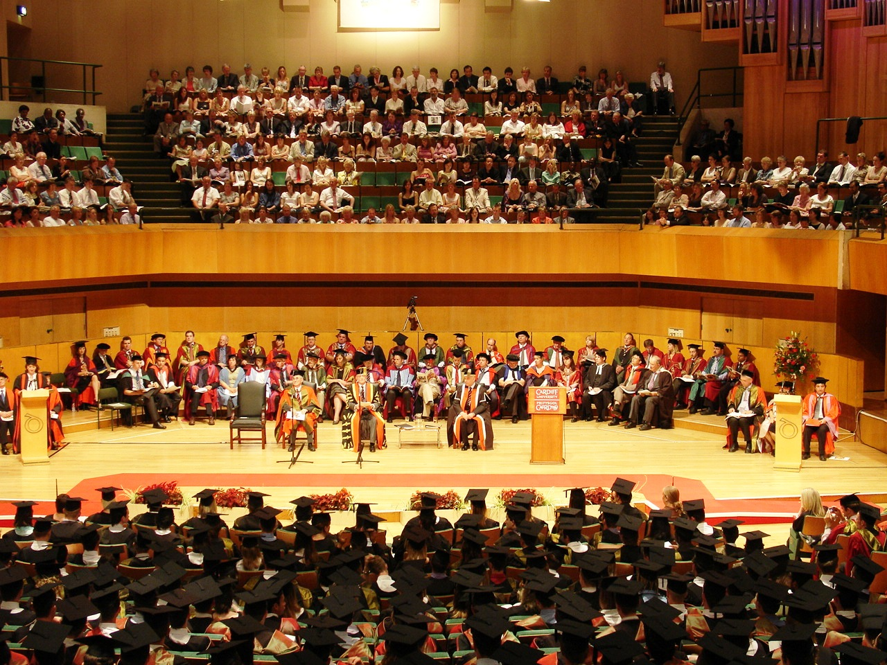 Graduation Ceremony for Cardiff University students. Photo made by Aneta Zurek in July 2005.